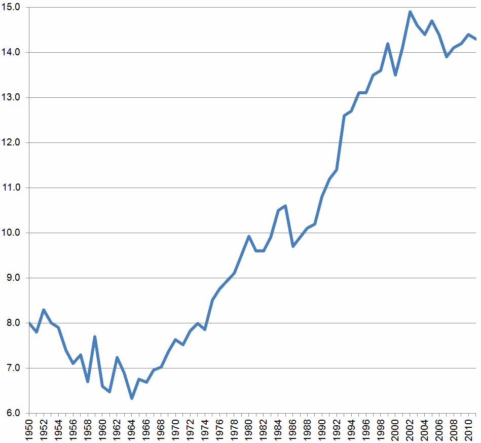 Belarus' mortality rate (annual deaths/1000 persons).